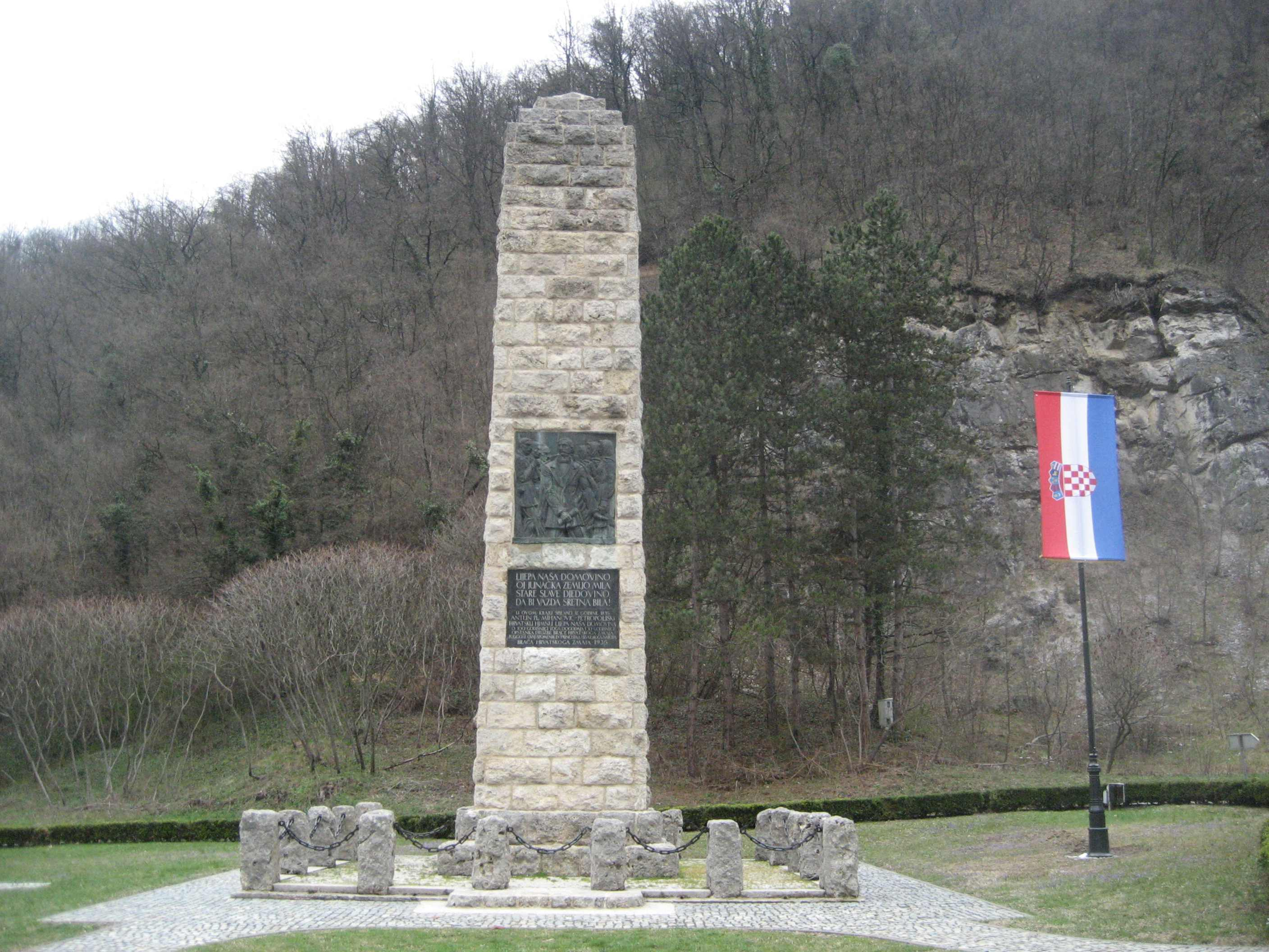 Monument in a tribute of Croatian national anthem